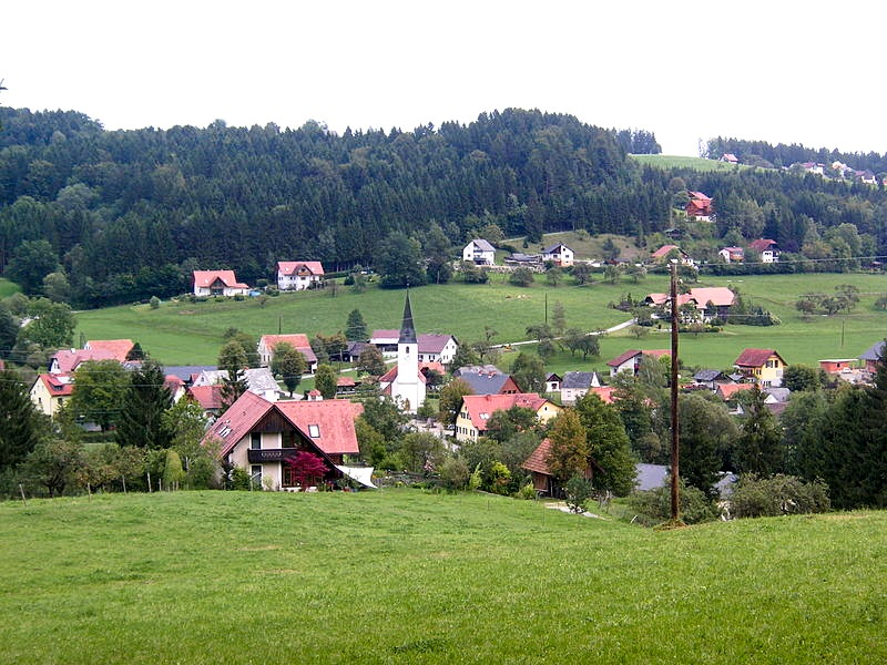 View from West to the East at Stiwoll, Styria, Austria